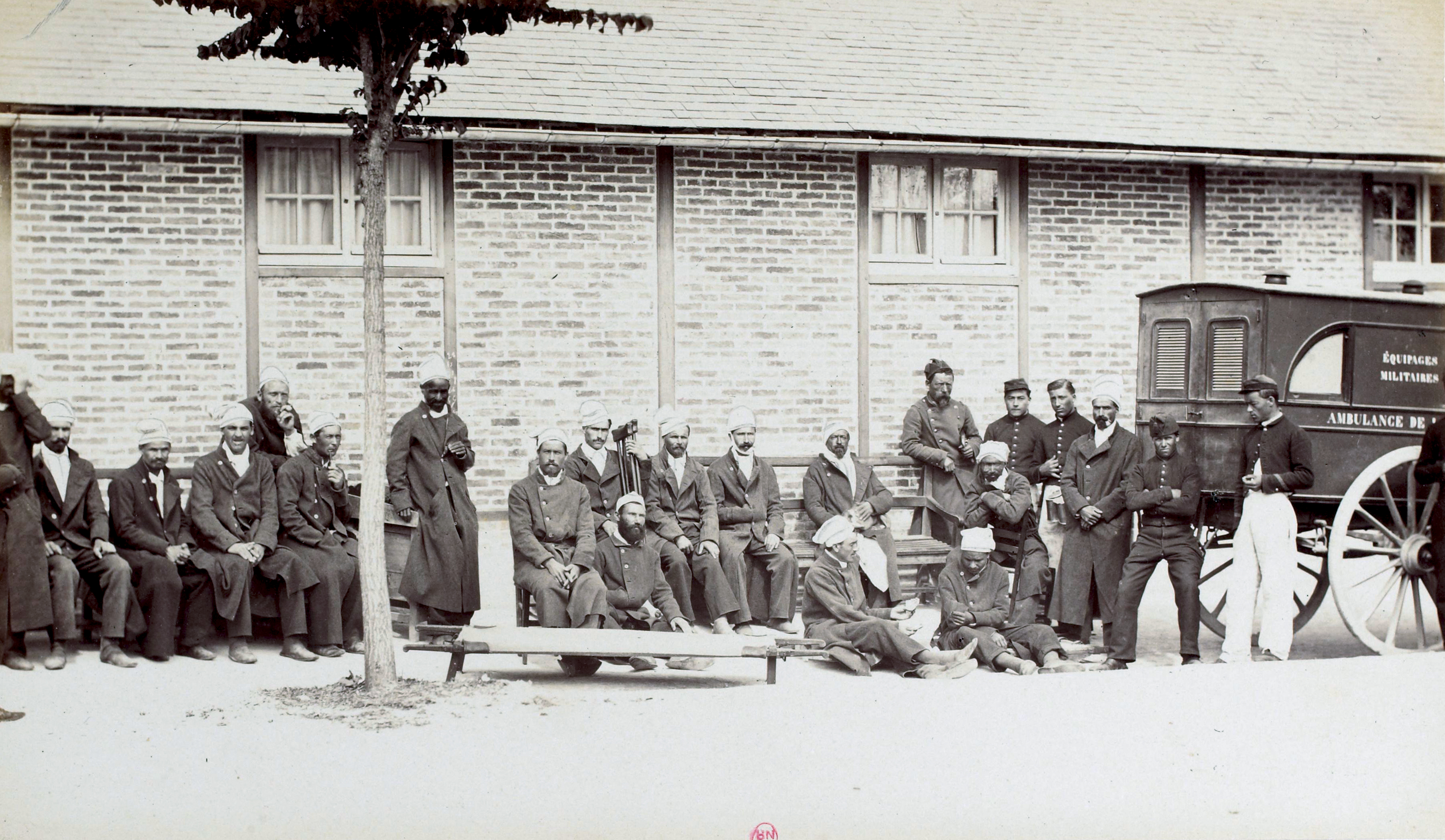 Photographie.